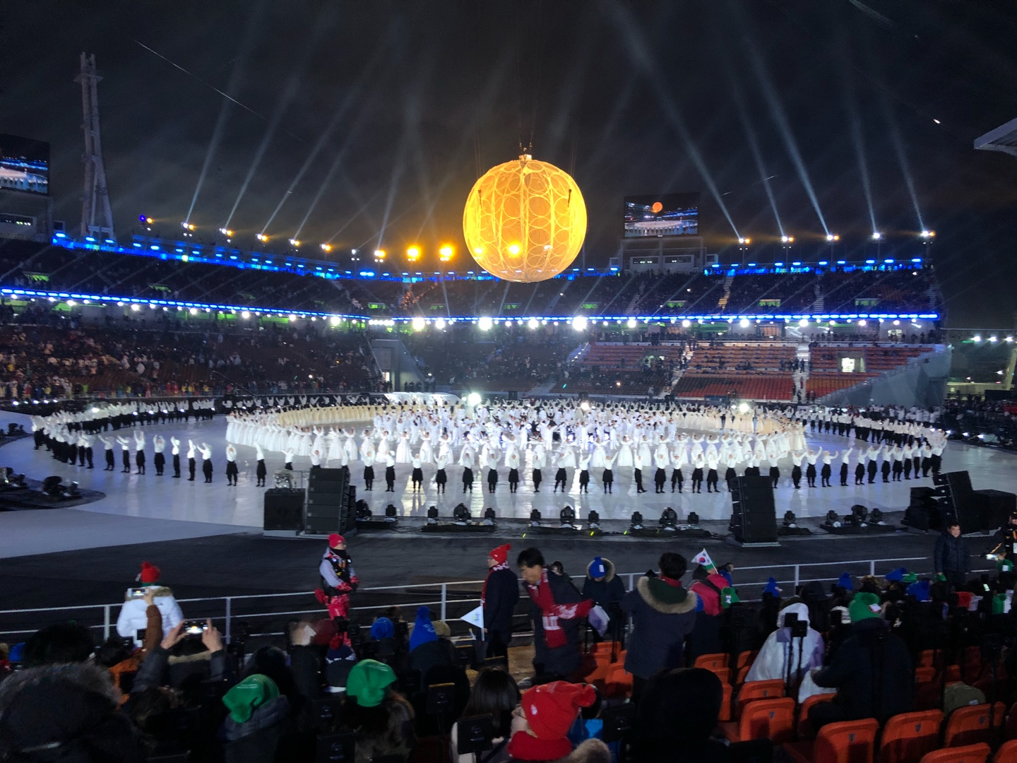 Pyeongchang Olympic Stadium where 2018 Winter Paralympics opening ceremony is held, taken in March 9, 2018.